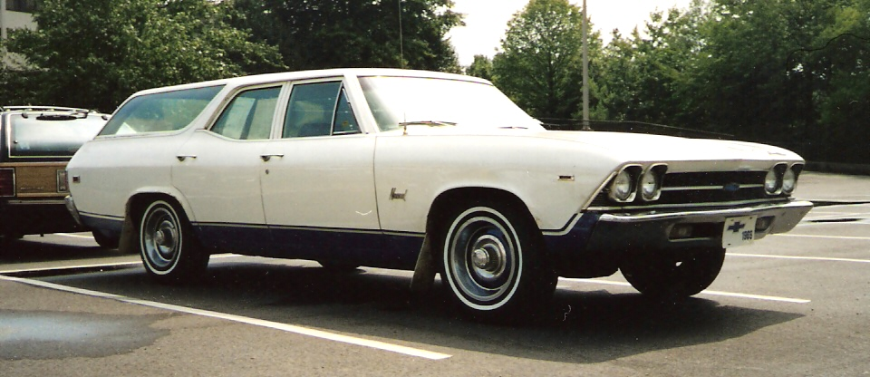 1969 Chevrolet Chevelle Nomad station wagon I photographed in Charlotte, North Carolina in June 1999